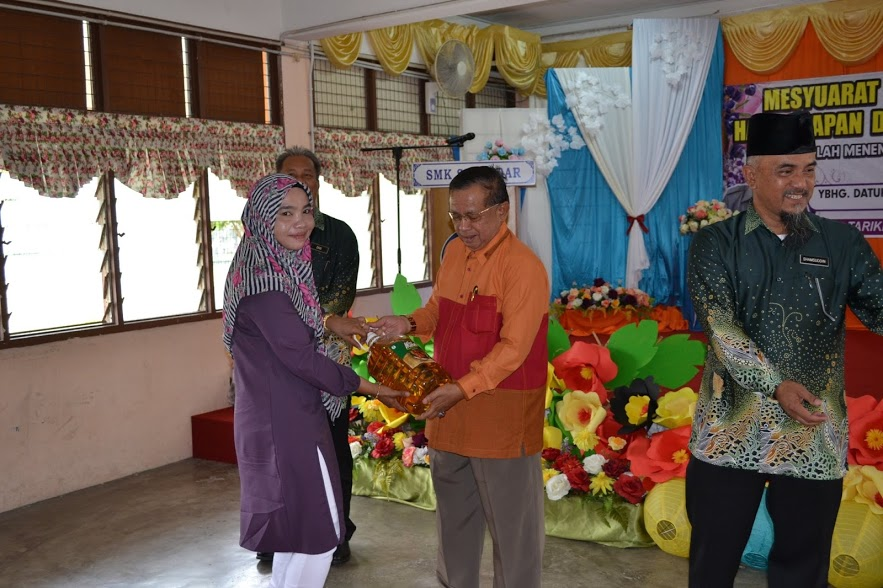 GAMBAR 10